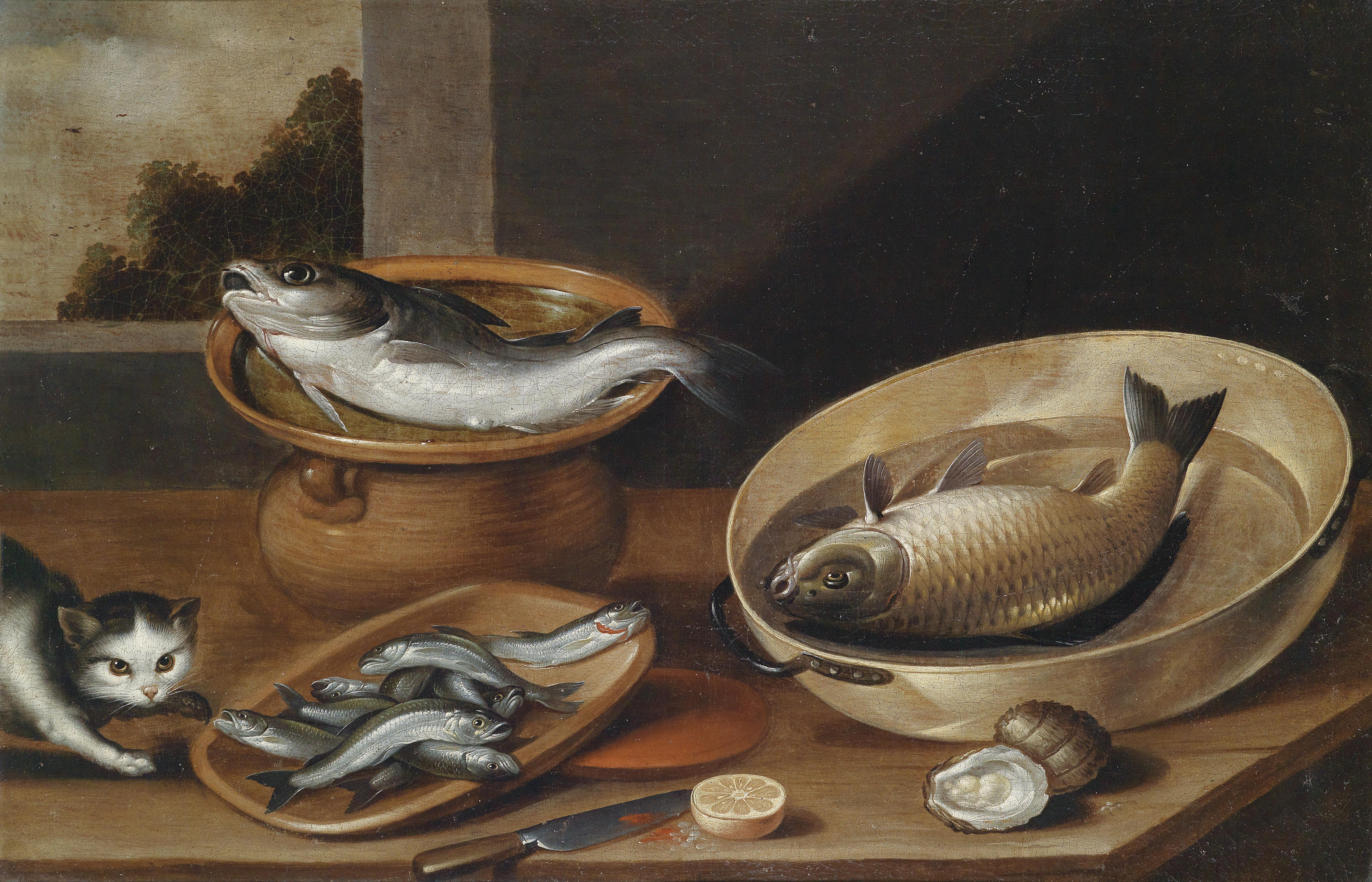 Still life with fish and a cat